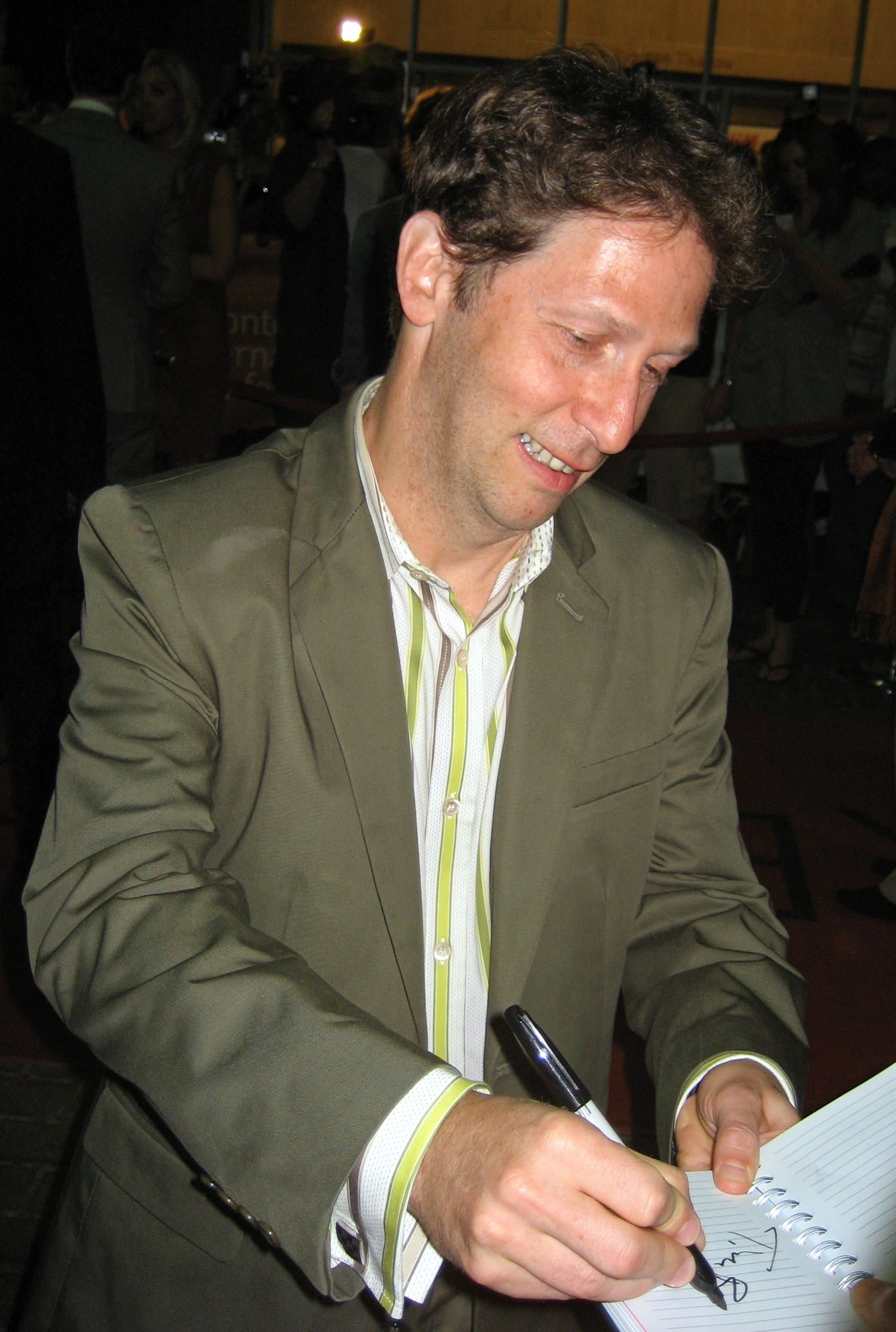 Writer/director Tim Blake Nelson at the premiere of Leaves of Grass, Toronto Film Festival 2009